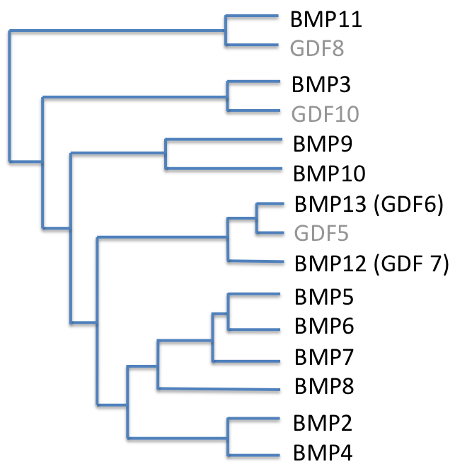 Sequence relationships among mammalian bone morphogenetic proteins (mouse/human). Based on Ducy & Karsenty 2000, Kidney International 57: 2208